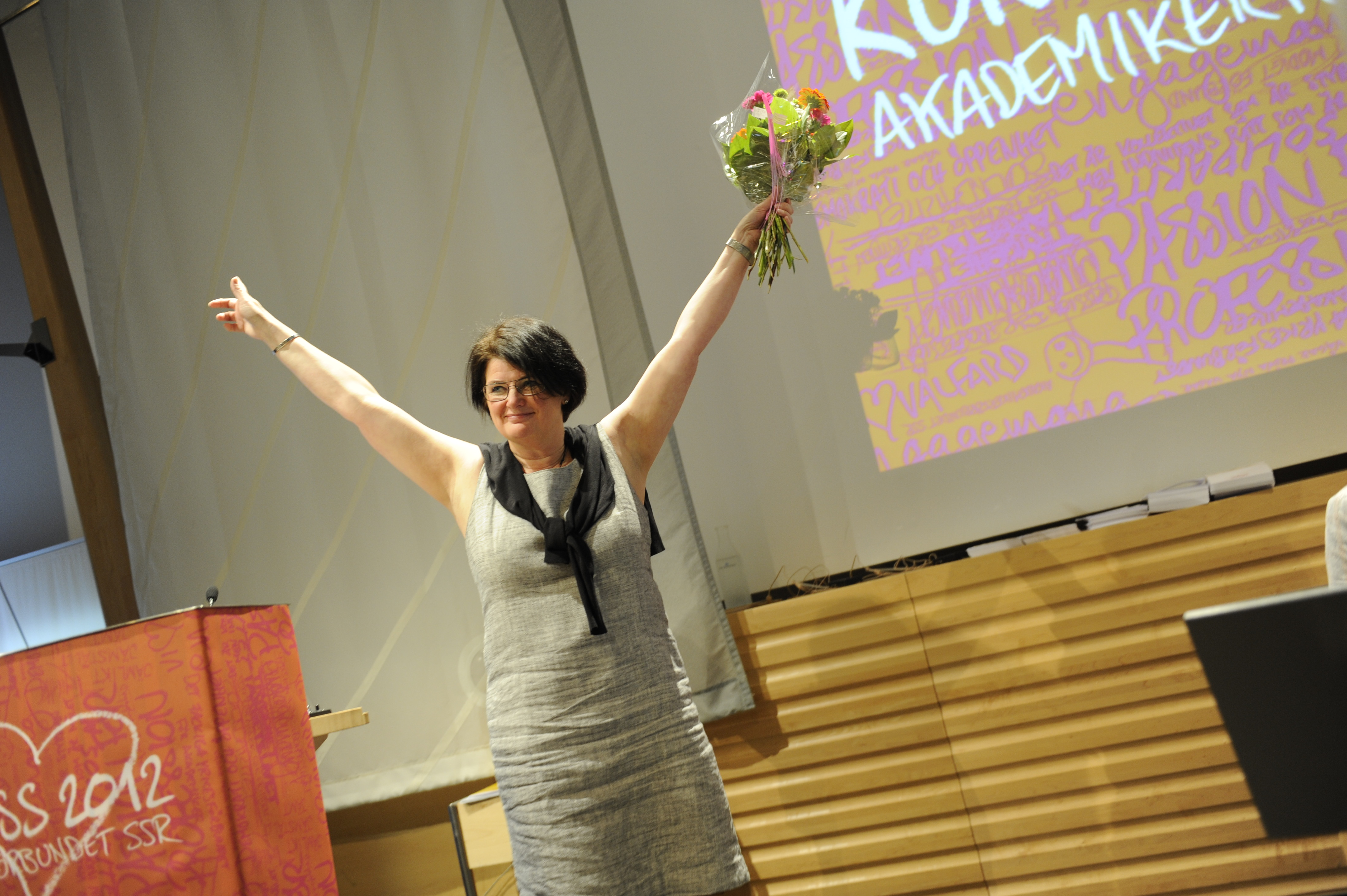 On May 13th, 2012, Heike Erkers was elected new chair of Akademikerförbundet SSR